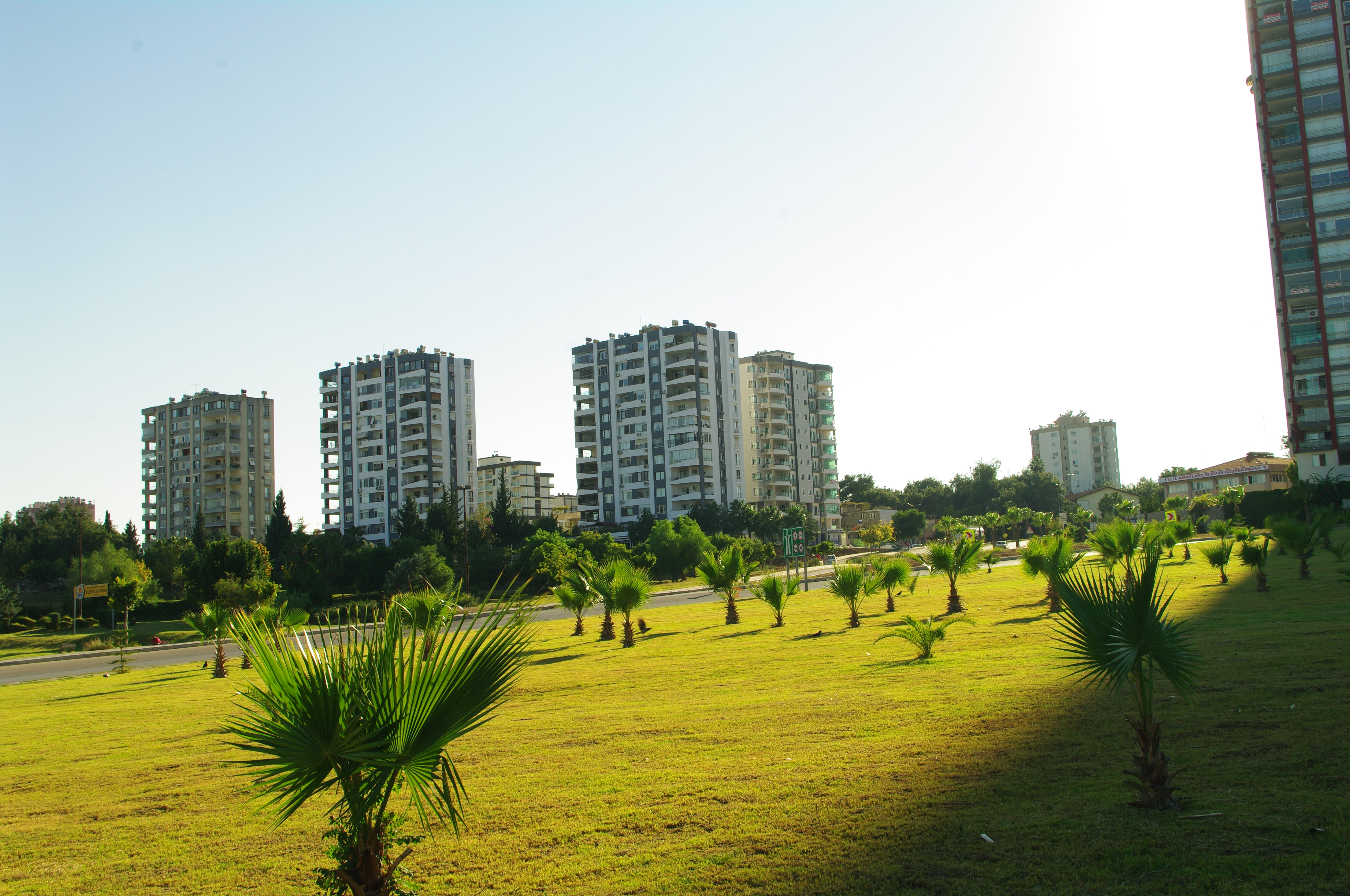 A view of Palms corner in Dilberler Sekisi Park in Yenibaraj Mah. in Seyhan, Adana - Turkey..